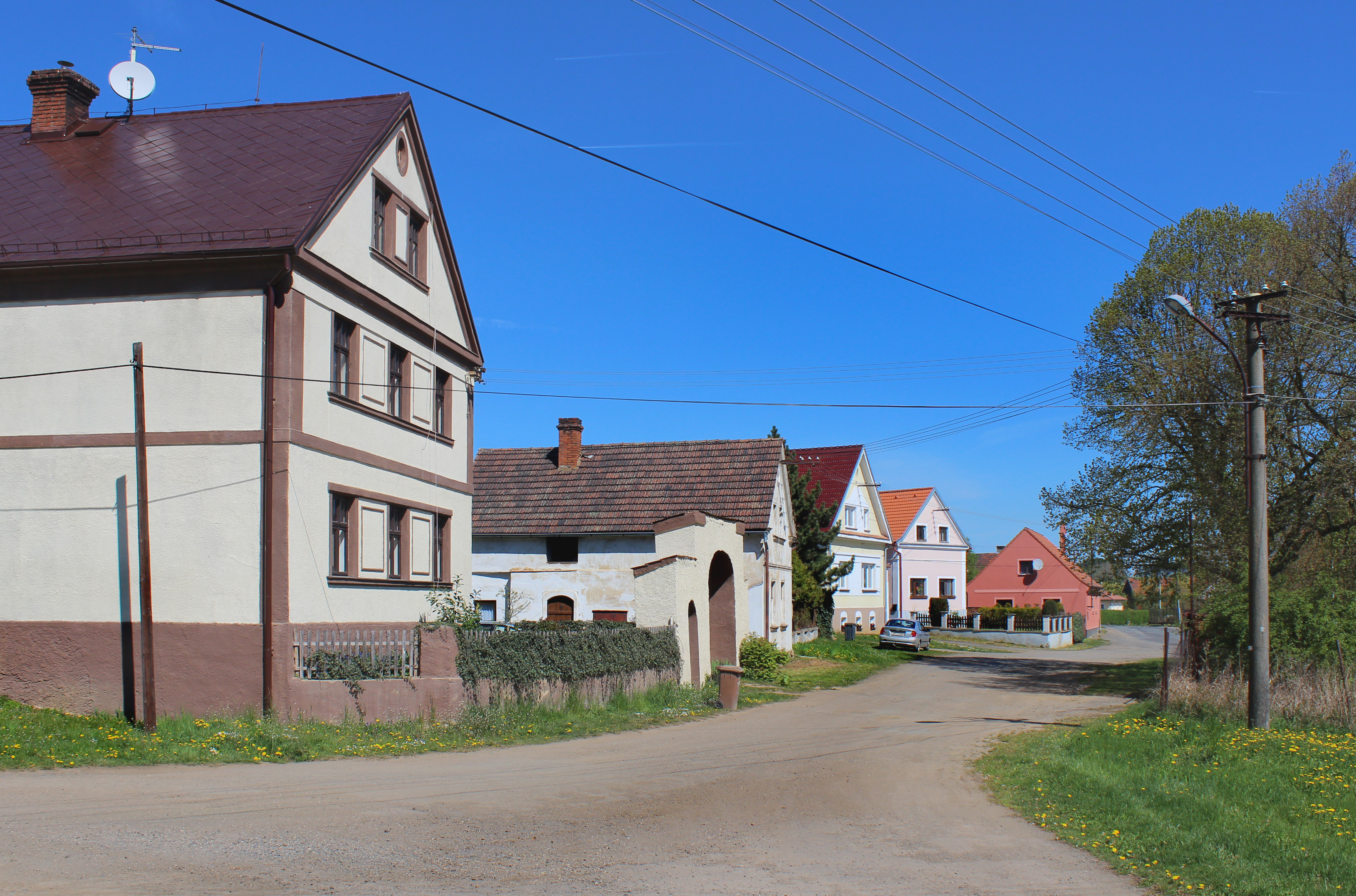 Common in Kšice village, Czech Republic